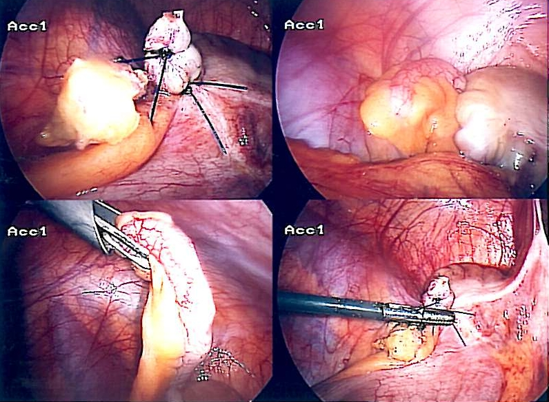 Laparoscopical Removal of a Vermiform Appendix